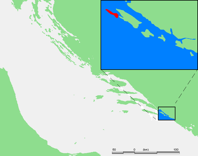 Island of Croatia - Croatia - Elafit Islands - Jakljan.PNG